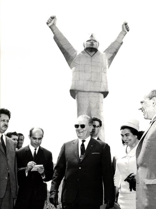 Tito visiting the monument Stevan Filipovic in Valjevo (1967)